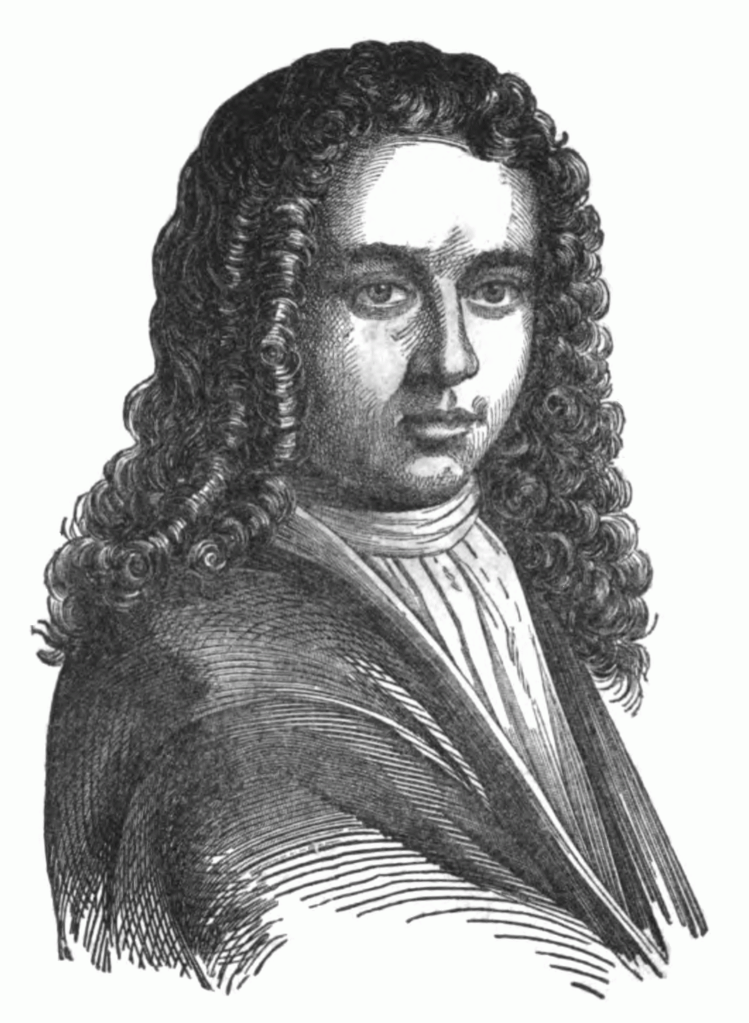 Ivan Franjin Gundulić (1588-1638), Croatian writer and poet, aged 33 in 1621 (copy of 1844 artist impression)